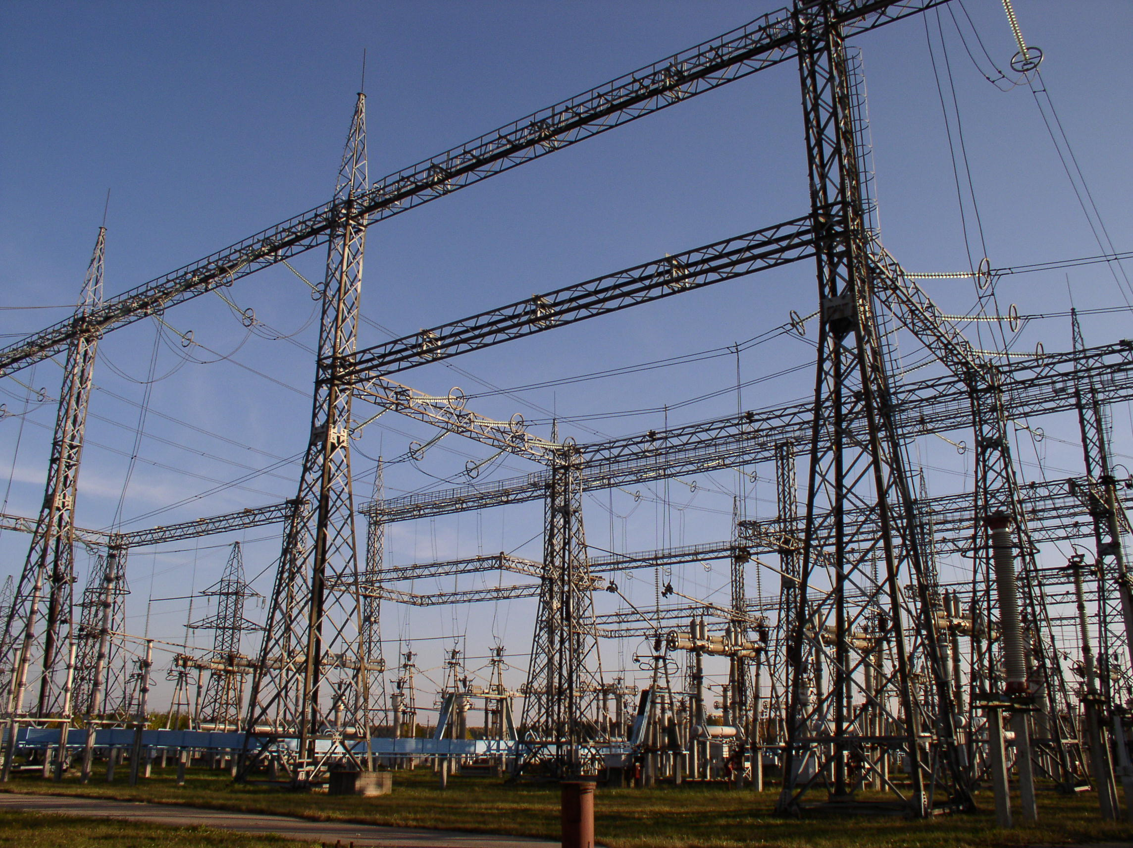 Power plant 4. Minsk, Belarus.